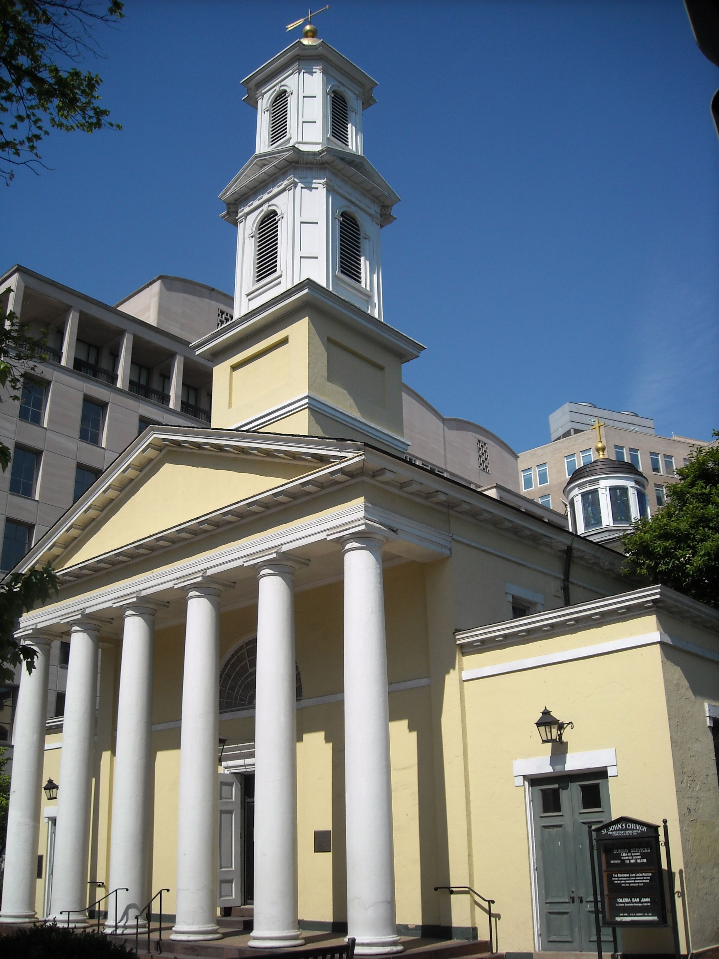 St. John's Church (Church of the Presidents) in Washington, D.C. The church is located across the street from the White House.